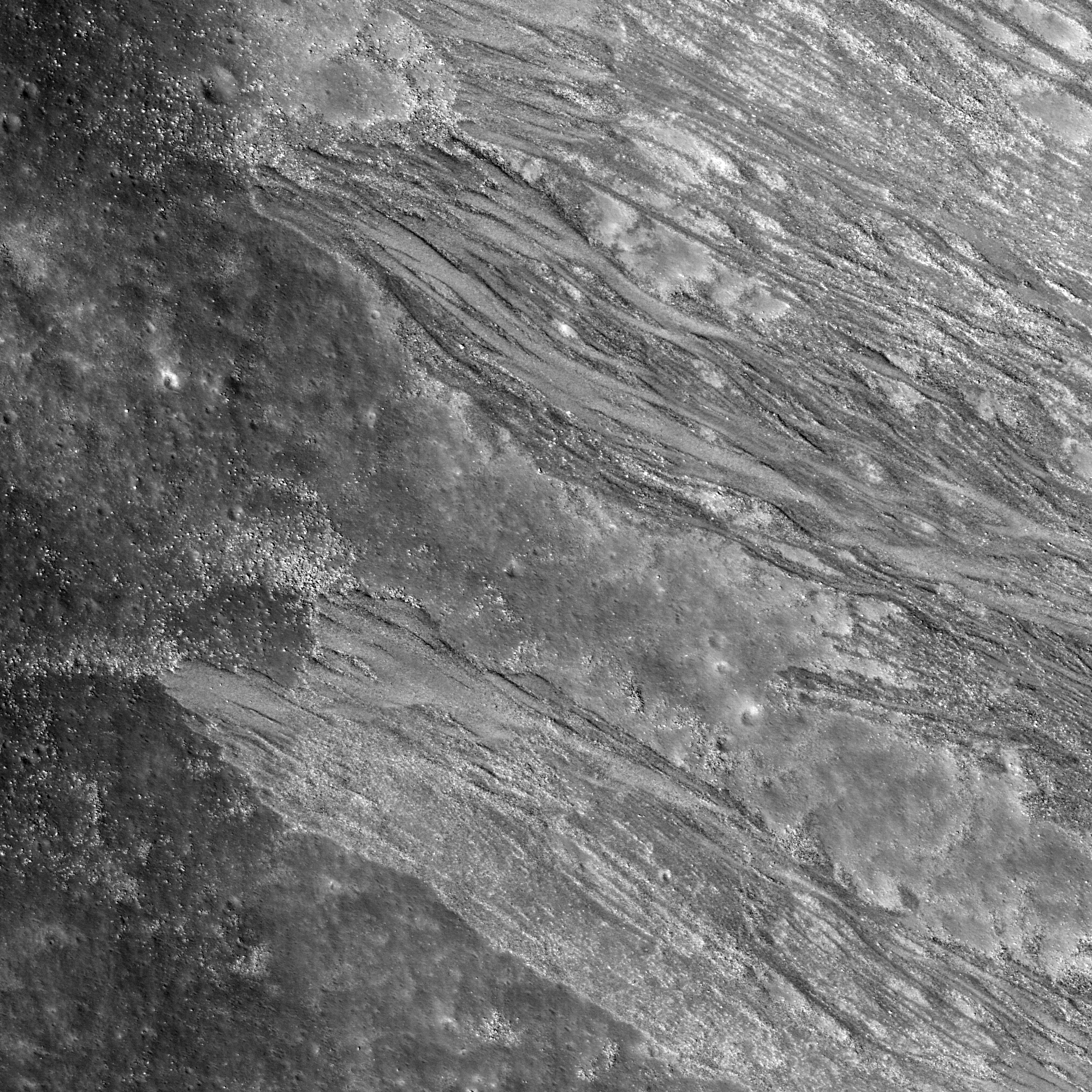 Avalanche flows adorn the walls and floor of Gardner crater. Illumination from south-southwest, north is up, image is ~800 m across, LROC NAC M121987140R [NASA/GSFC/Arizona State University].